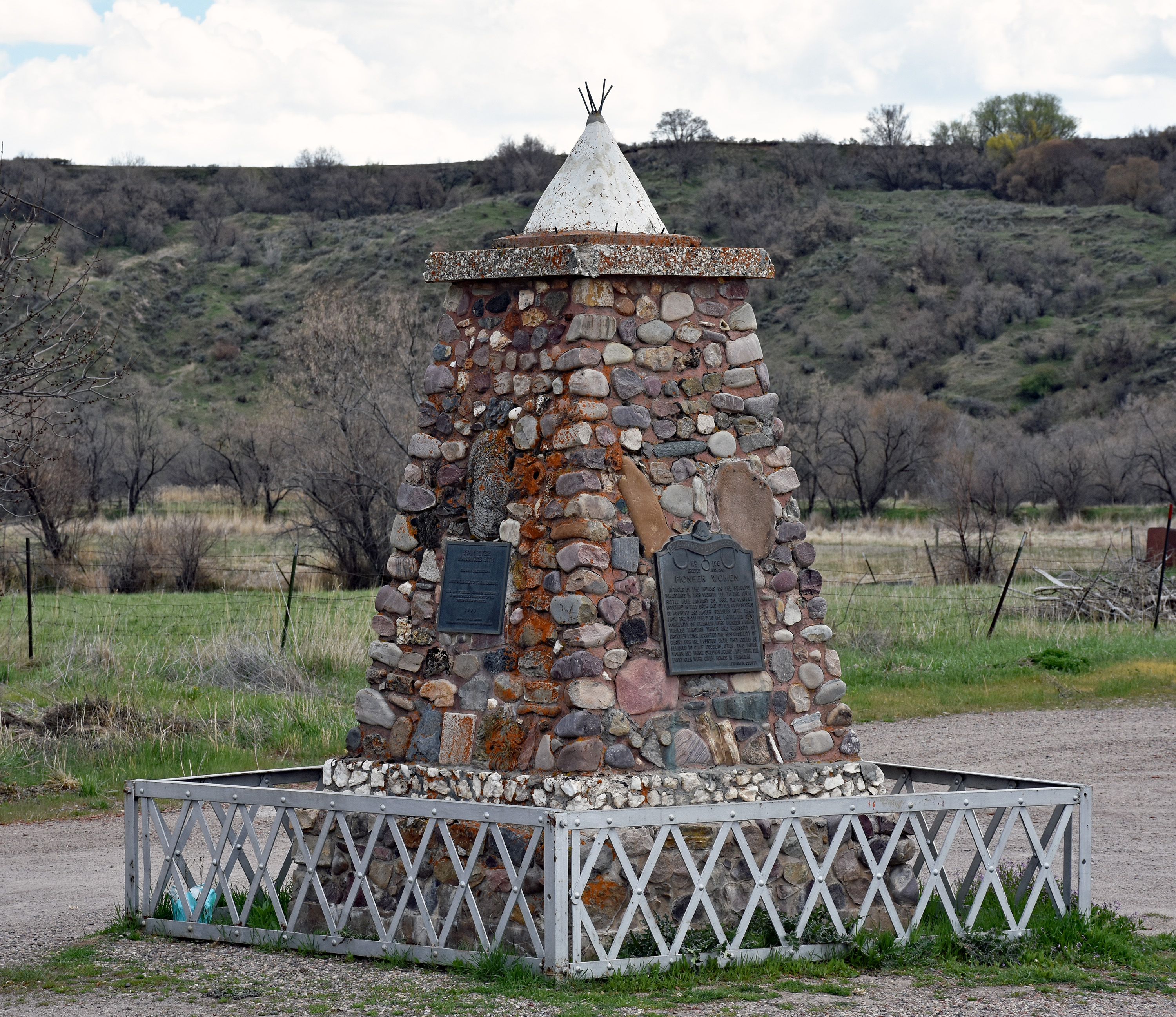 Erected near the site of the 1863 Bear River Massacre, this monument was dedicated on September 5, 1932. Known as the "Battle Creek" monument at one time, it was built before history acknowledged the incident as a massacre. The marker was constructed of nearly 400 rocks (collected from many different localities) and its top features a teepee. This view shows the north and west sides of the monument. A 1932 plaque, titled "The Battle of Bear River," is attached to the monument's east side and tells an antiquated story of the massacre. This plaque indicates the monument was the work of the Franklin County Chapter of the Daughters of the Utah Pioneers, the Cache Valley Council of the Boy Scouts of America, and the Utah Pioneer Trails and Landmarks Association. In 1953, the Daughters of the Utah Pioneers added a second plaque, this one located on the west side, honoring nearby Latter-day Saint women who cared for injured soldiers. A third plaque, on the monument's north side, indicates the site was designated a National Historic Landmark in 1990.